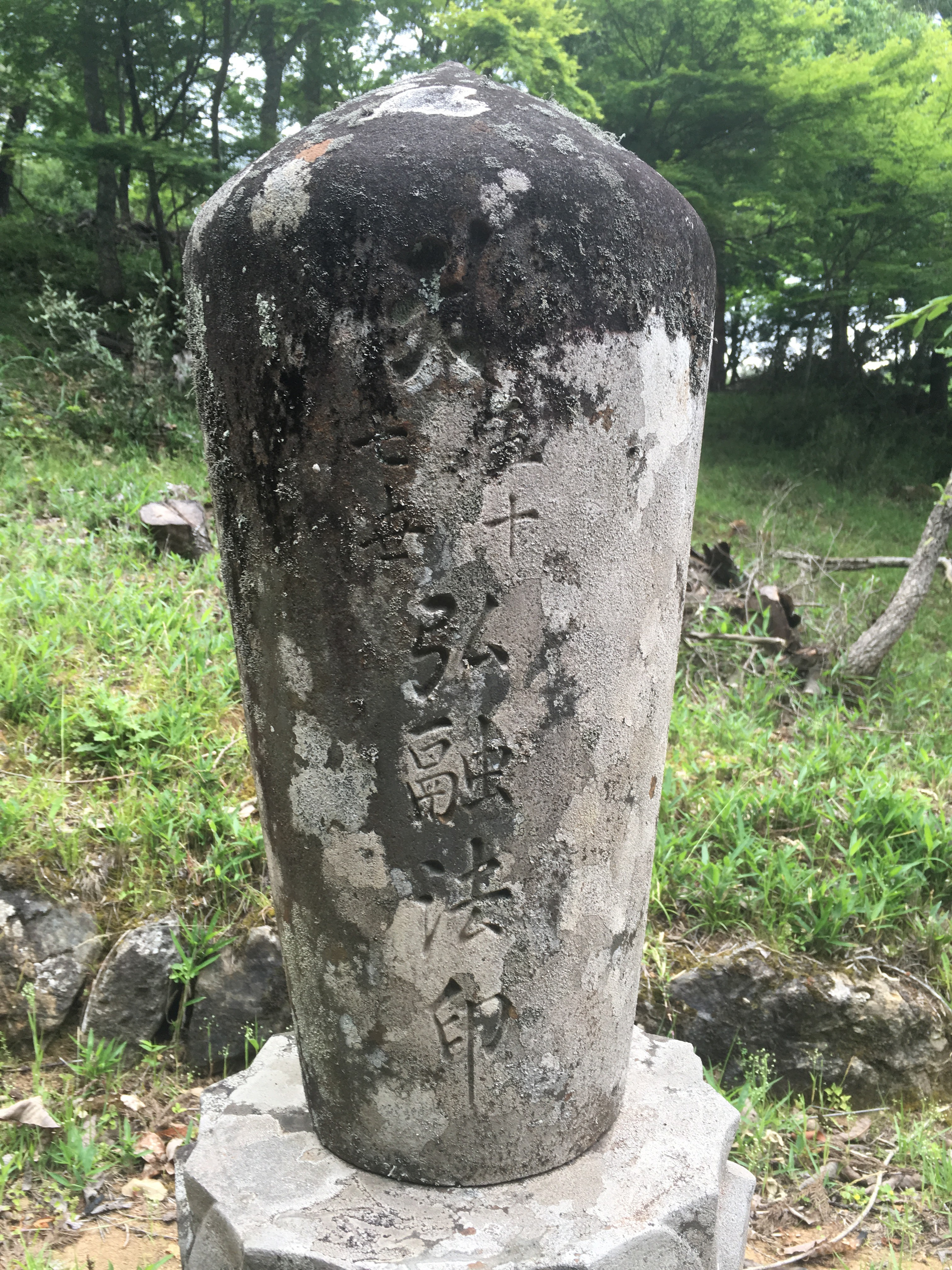 The tomb of KOUYU (Dento Ajyari, -1864)